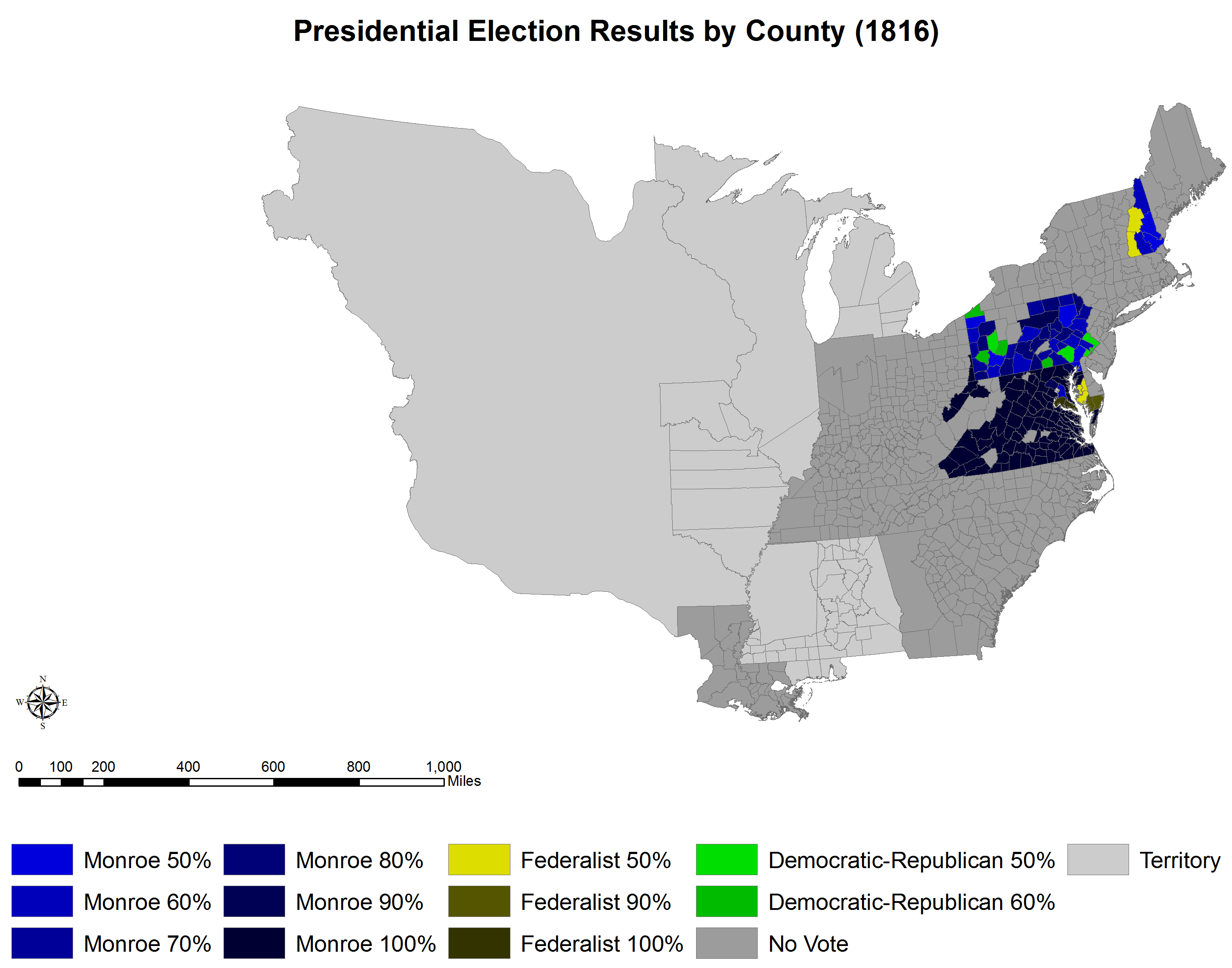 Presidential election results by county (1816).